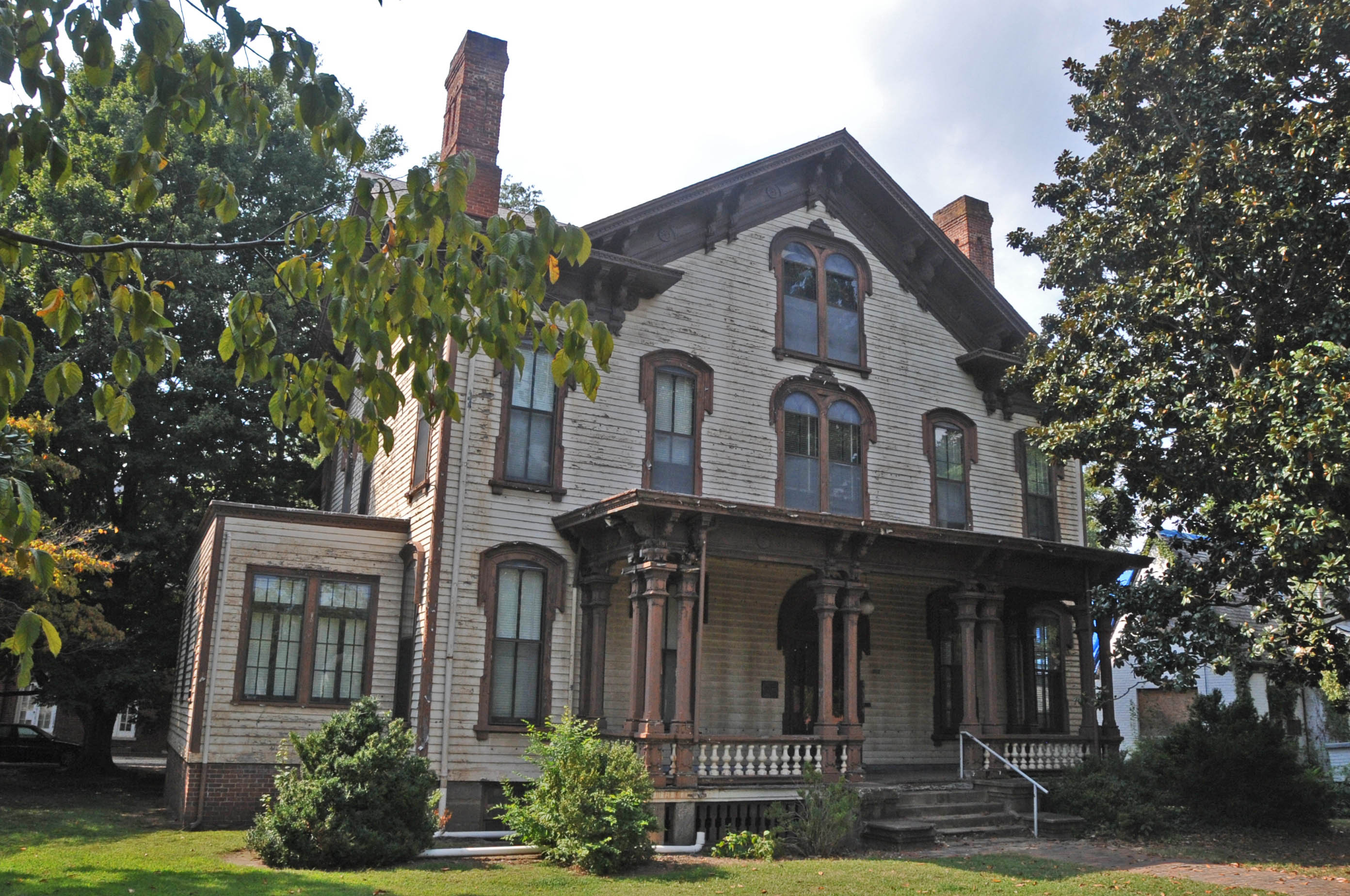 ITALIANATE; ANDREWS WAS A CONFEDERATE CAPTAIN AND VICE-PRESIDENT OF THE SOUTHERN RAILROAD; BUILT 1844